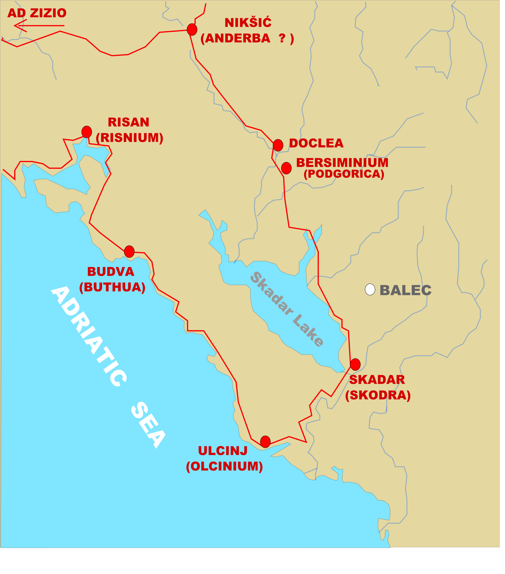 Medieval Balec and ancient roman roads.